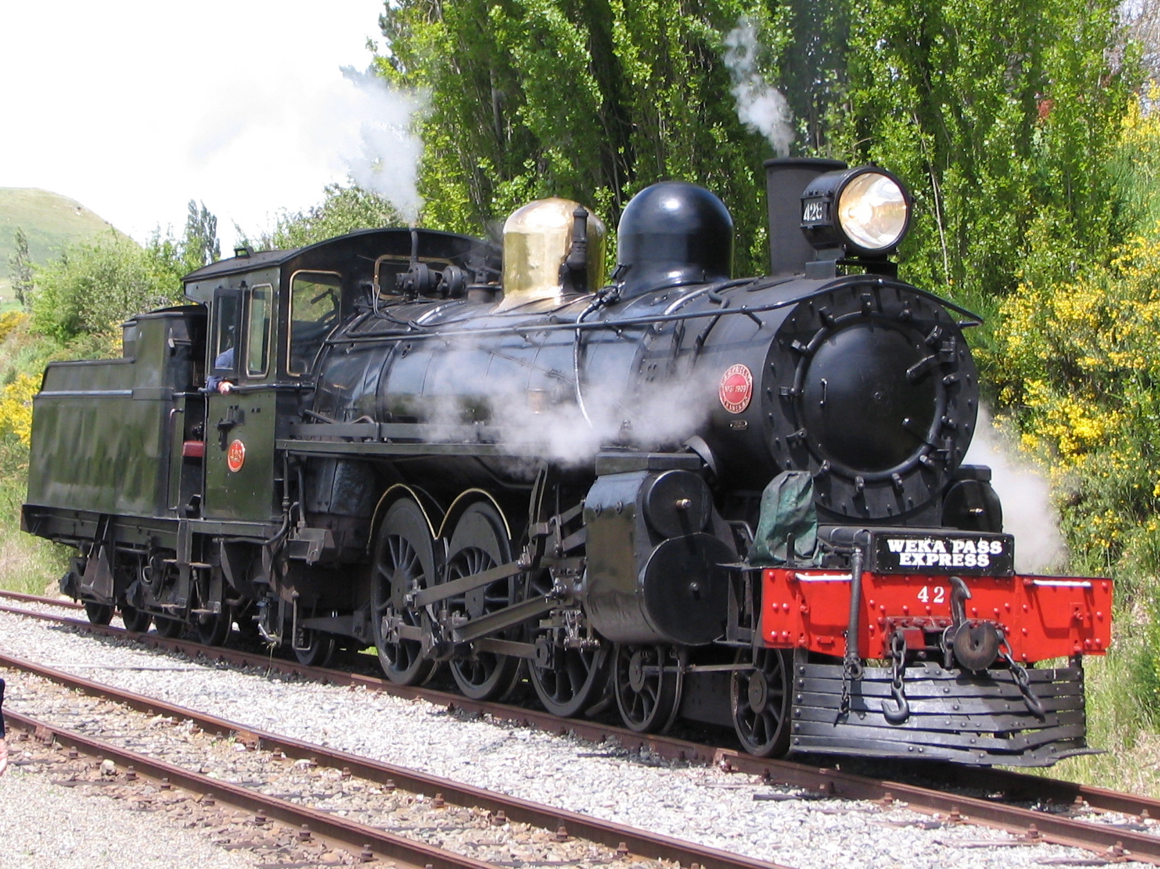 NZR A class No.428 "Pacific type" steam locomotive of the Weka Pass Railway at Waikari.